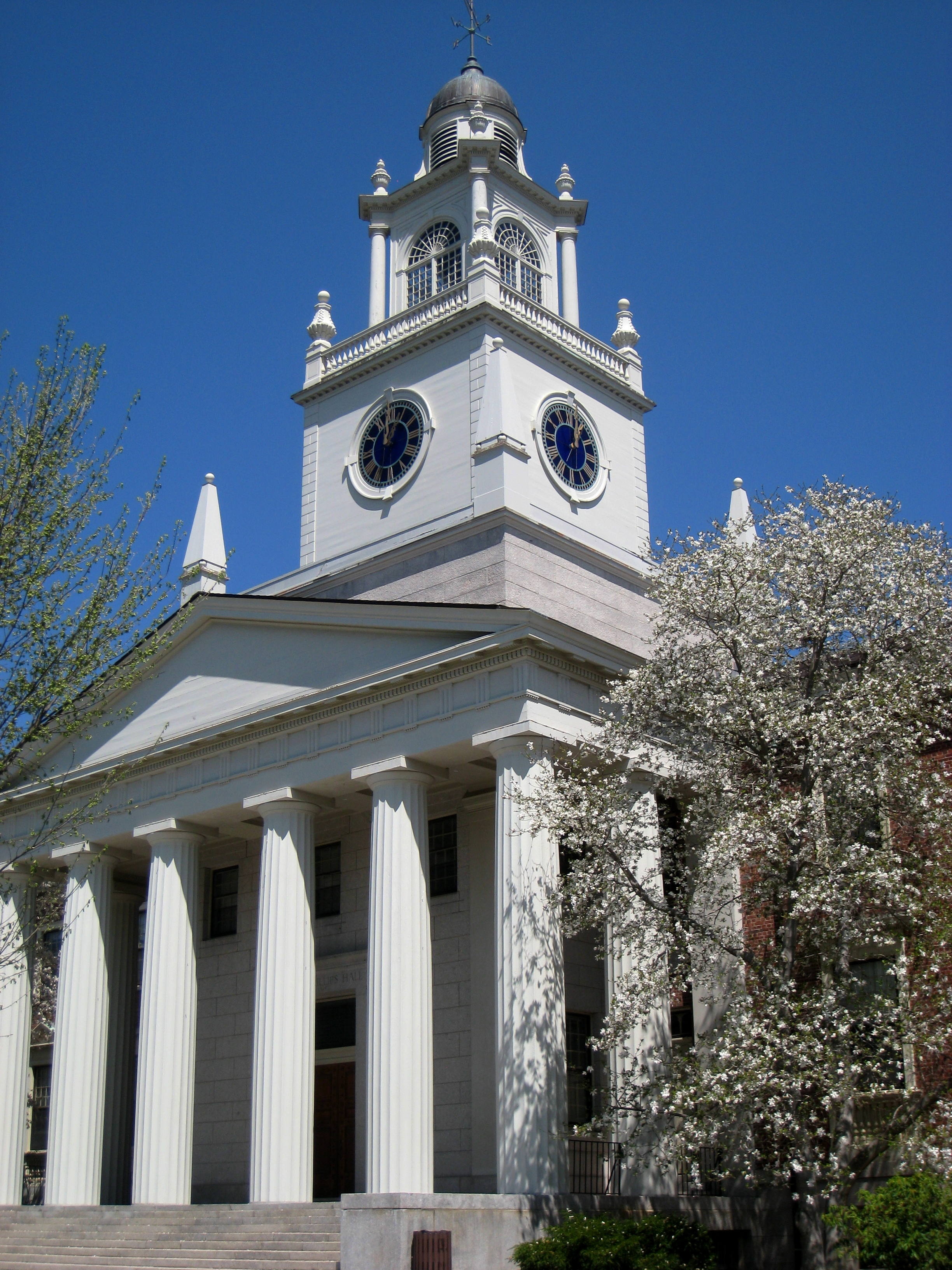 Phillips Academy, Andover, Massachusetts, USA - Samuel Phillips Hall, main tower detail.